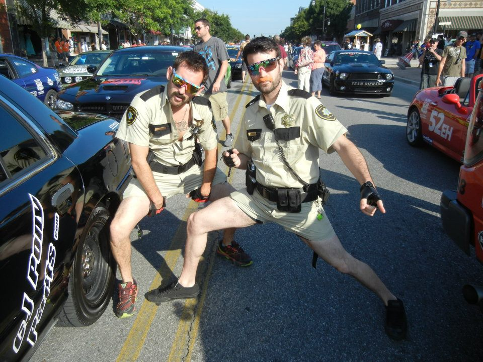 Best Theme 2012 Rally Dixie